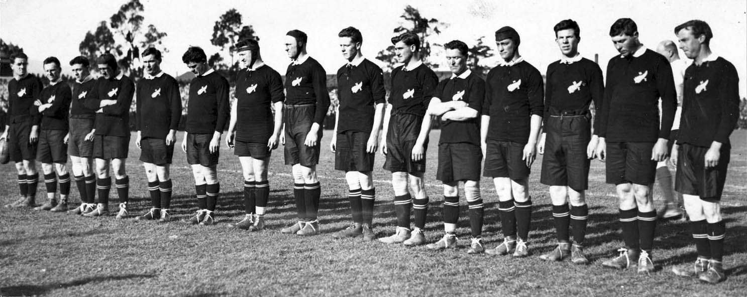 Team photograph of the New Zealand rugby union team before playing South Africa in 1921. Unknown location but most likely Dunedin. From left to right George Aitken, Harry (Ginger) E Nicolls, unidentified, unidentified, unidentified. Jack Steel, J Moffitt, J Richardson, J Donald, (Son) White, unidentified, unidentified, Mark Nicholls, (Moke) Bellis, Kingston.